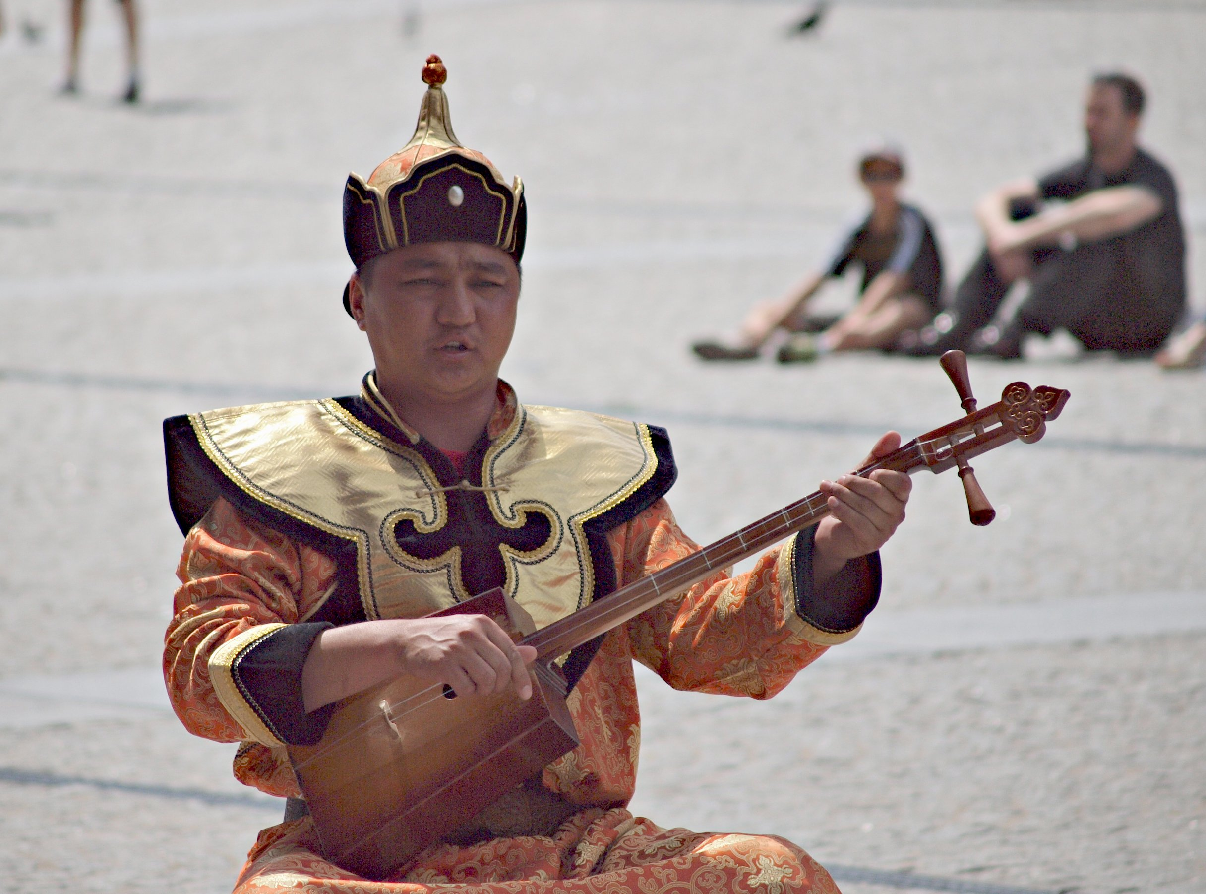 Doshpuluur player, Paris 2010.